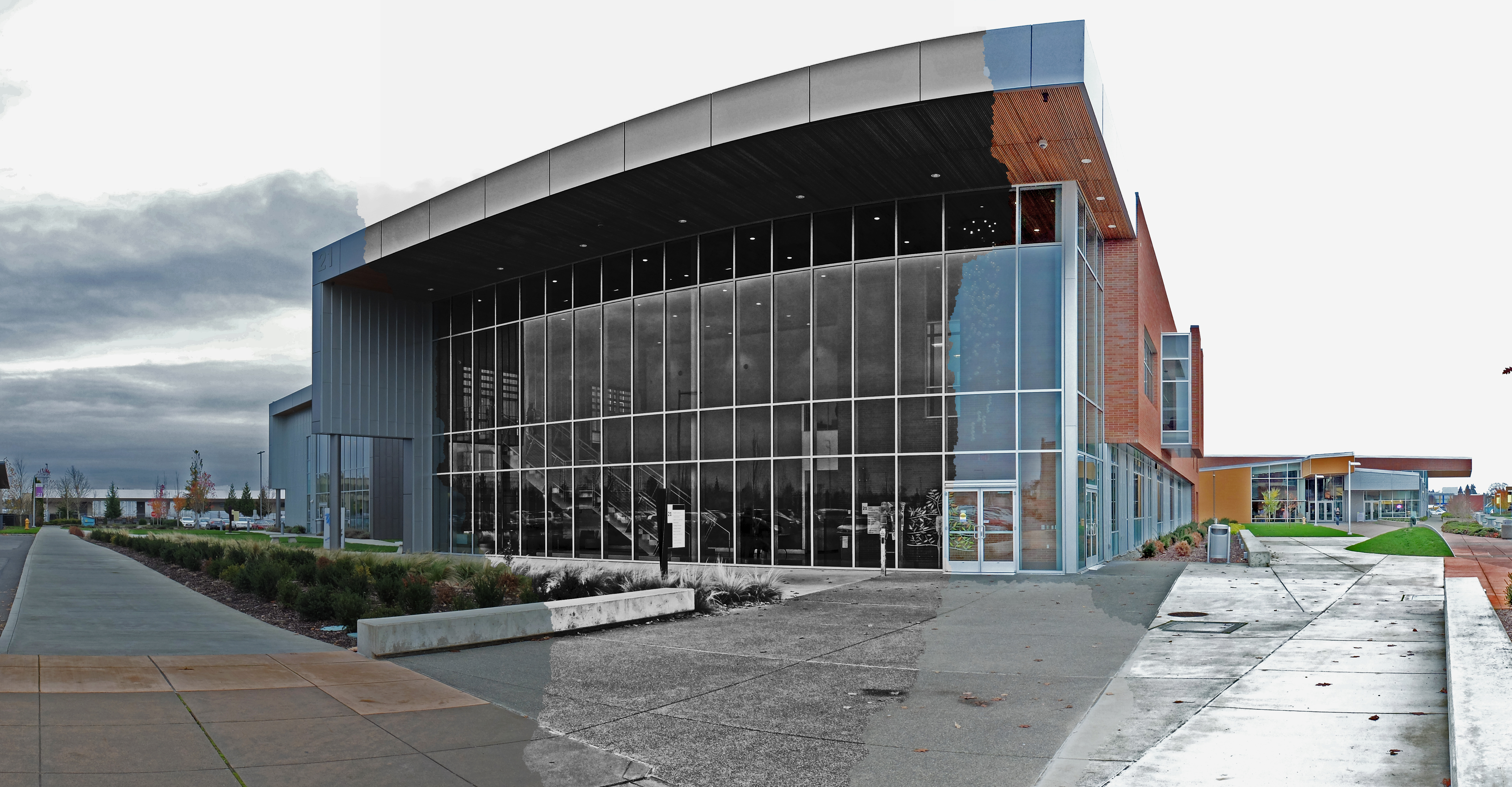 McGranahan Architects' bruternist architecture